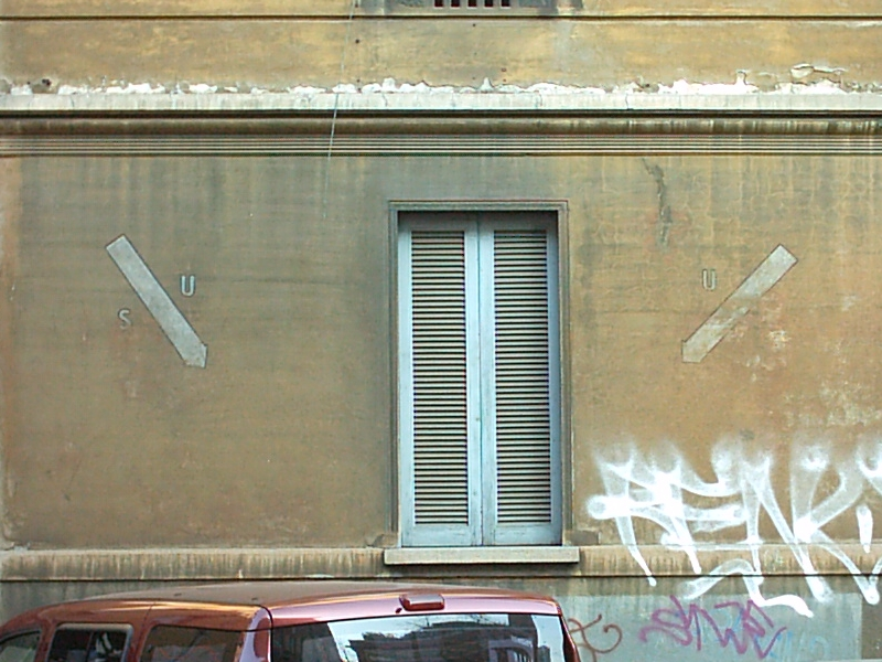 Arrows with US ("Uscita di sicurezza" tag painted during World War 2 on a wall in Milan, Italy An explanation here